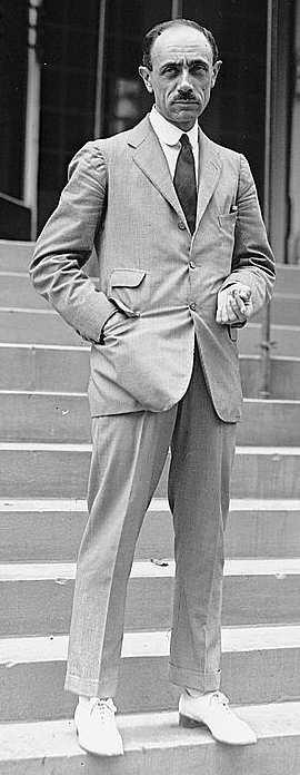 Hungarian Prime Minister Pál Count Teleki de Szék (1871-1941)